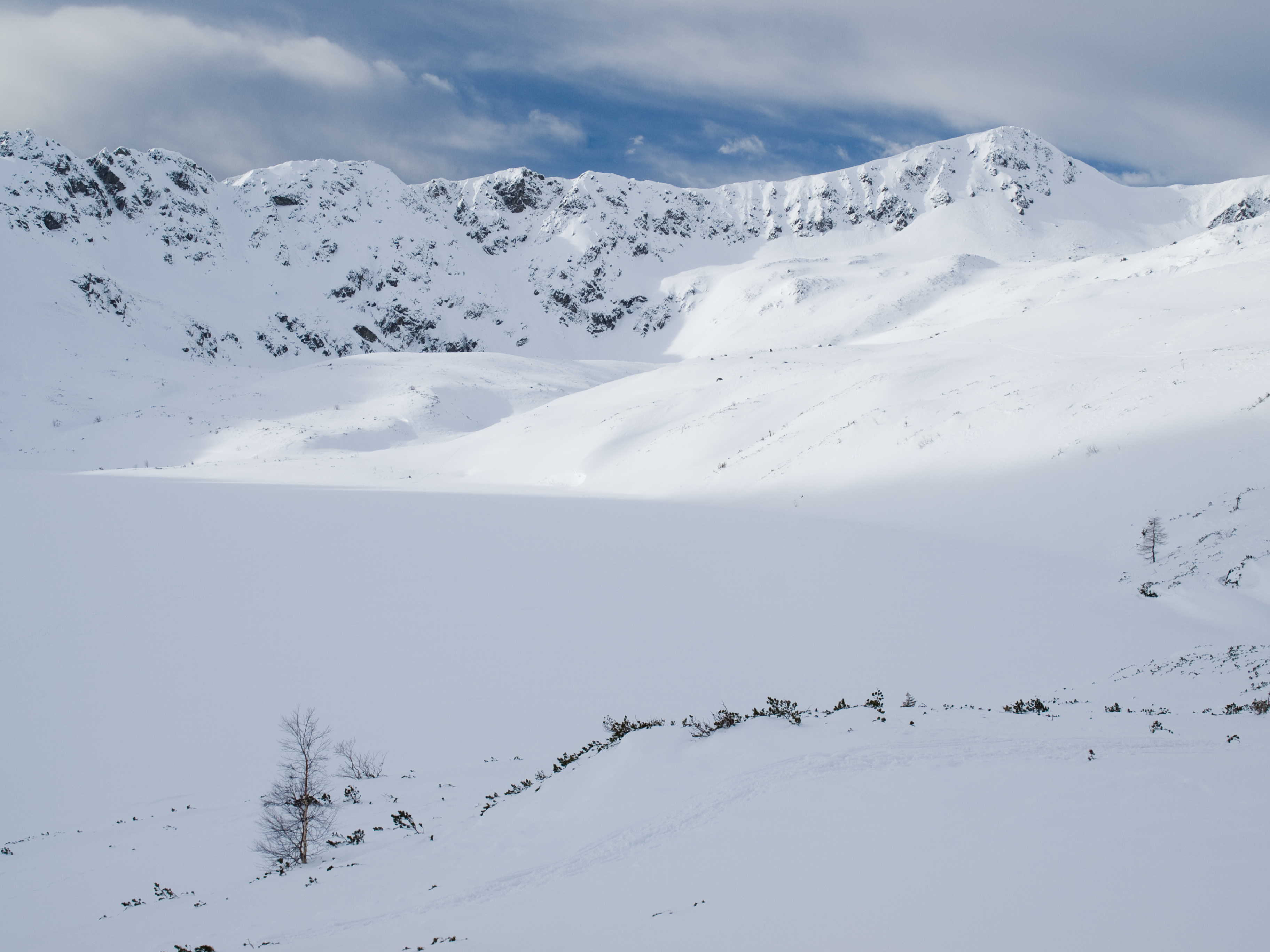 The frozen lake (Wielki Staw Polski) in Dolina Pięciu Stawów Polskich. Above it Kotelnica ridge (left) and Gładki Wierch (right).